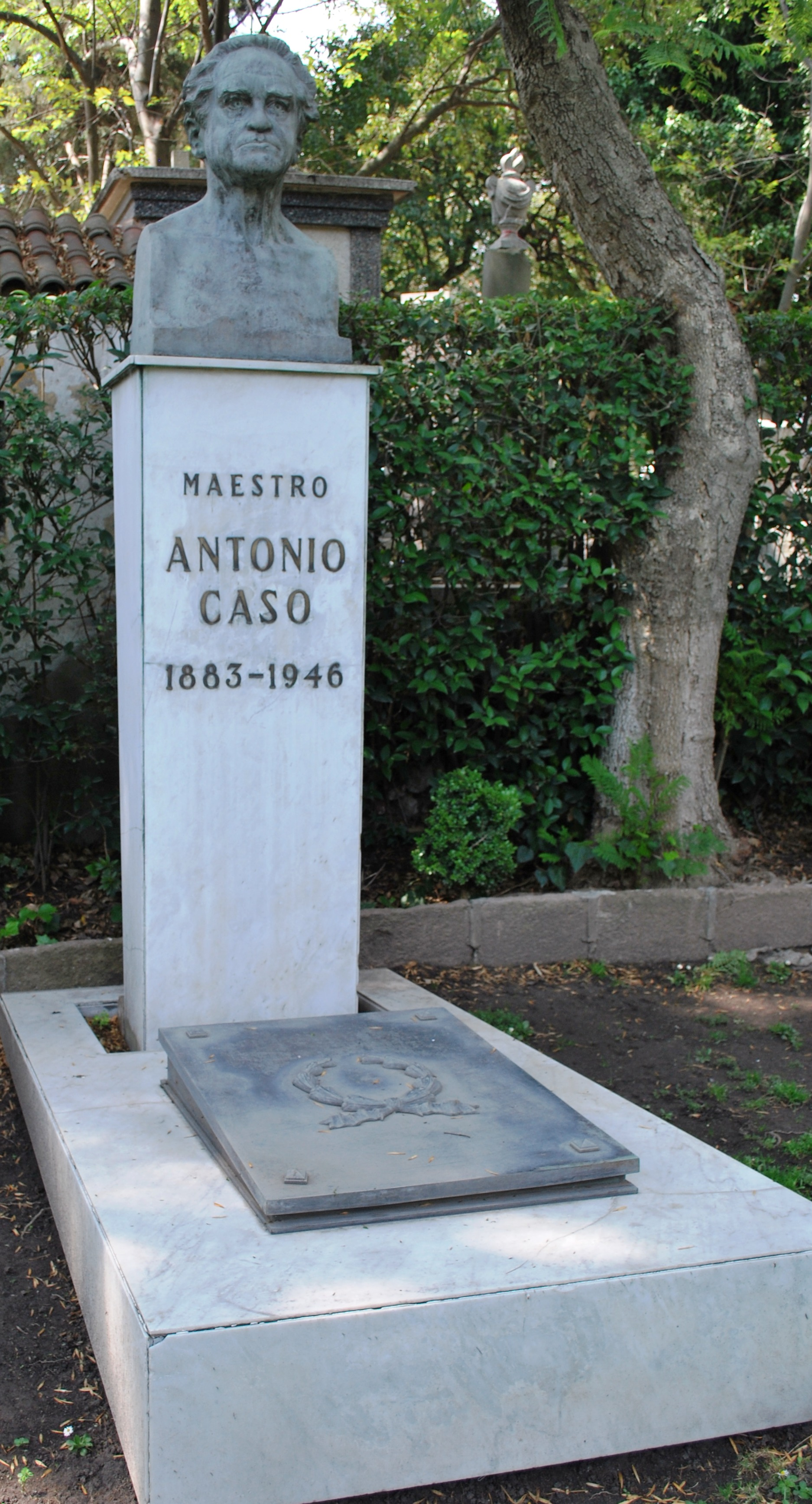 Tomb of Antonio Caso in the Panteon Civil de Dolores cemetary in Mexico City